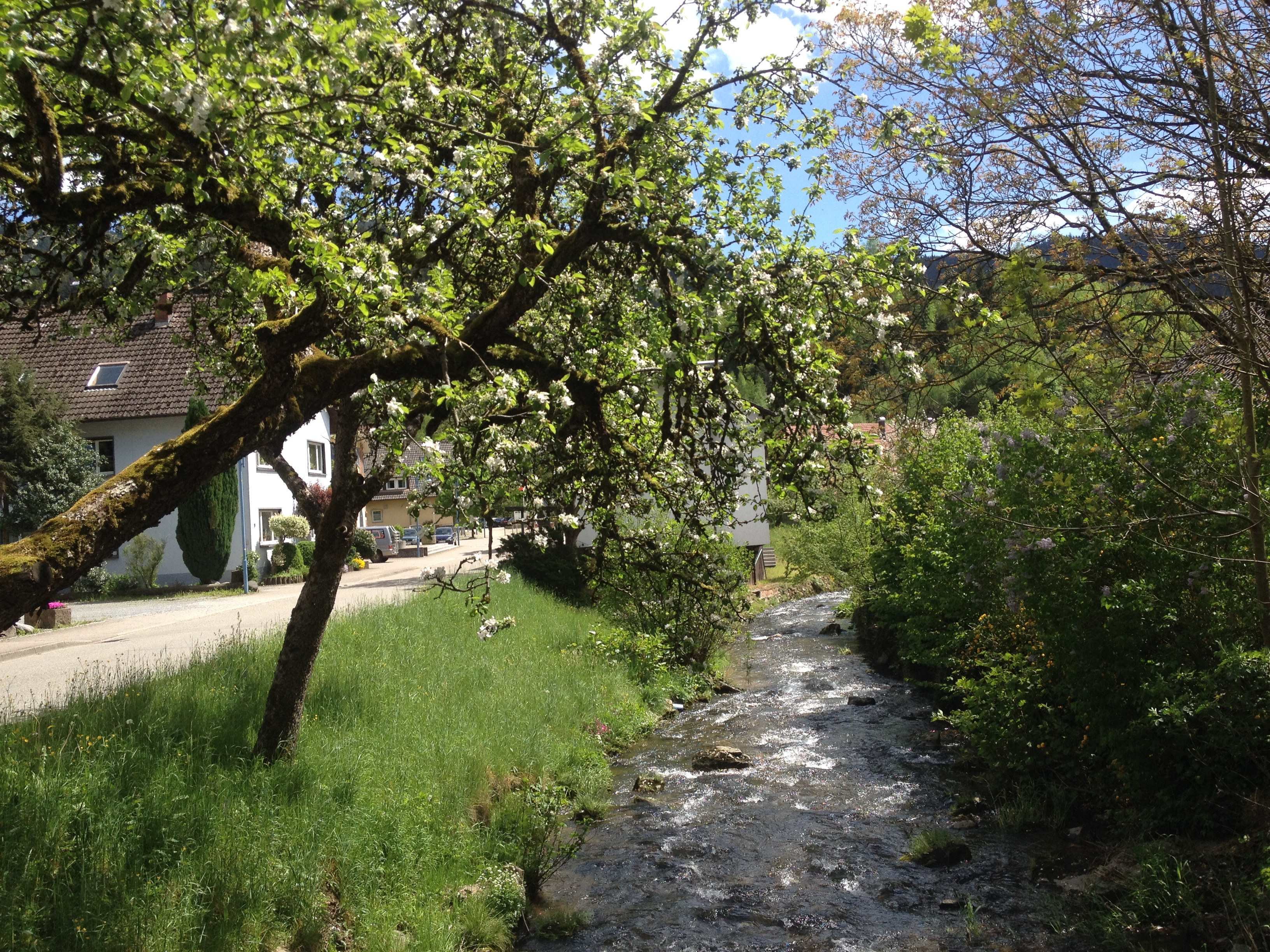 landscape Oberwolfach